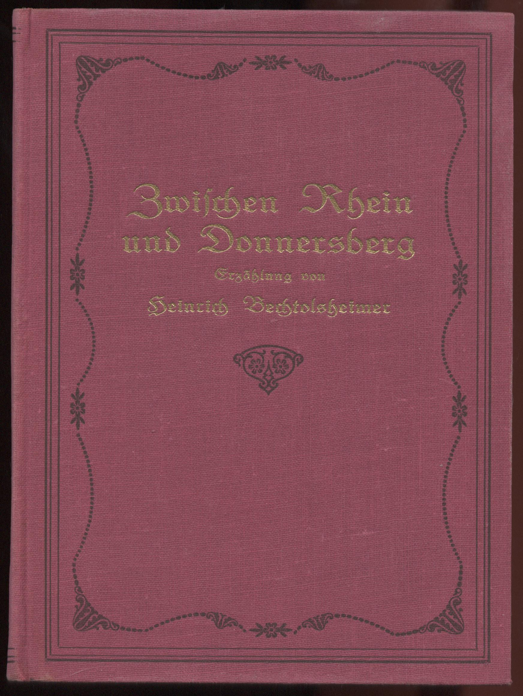 Buchcover Heinrich Bechtolsheimer